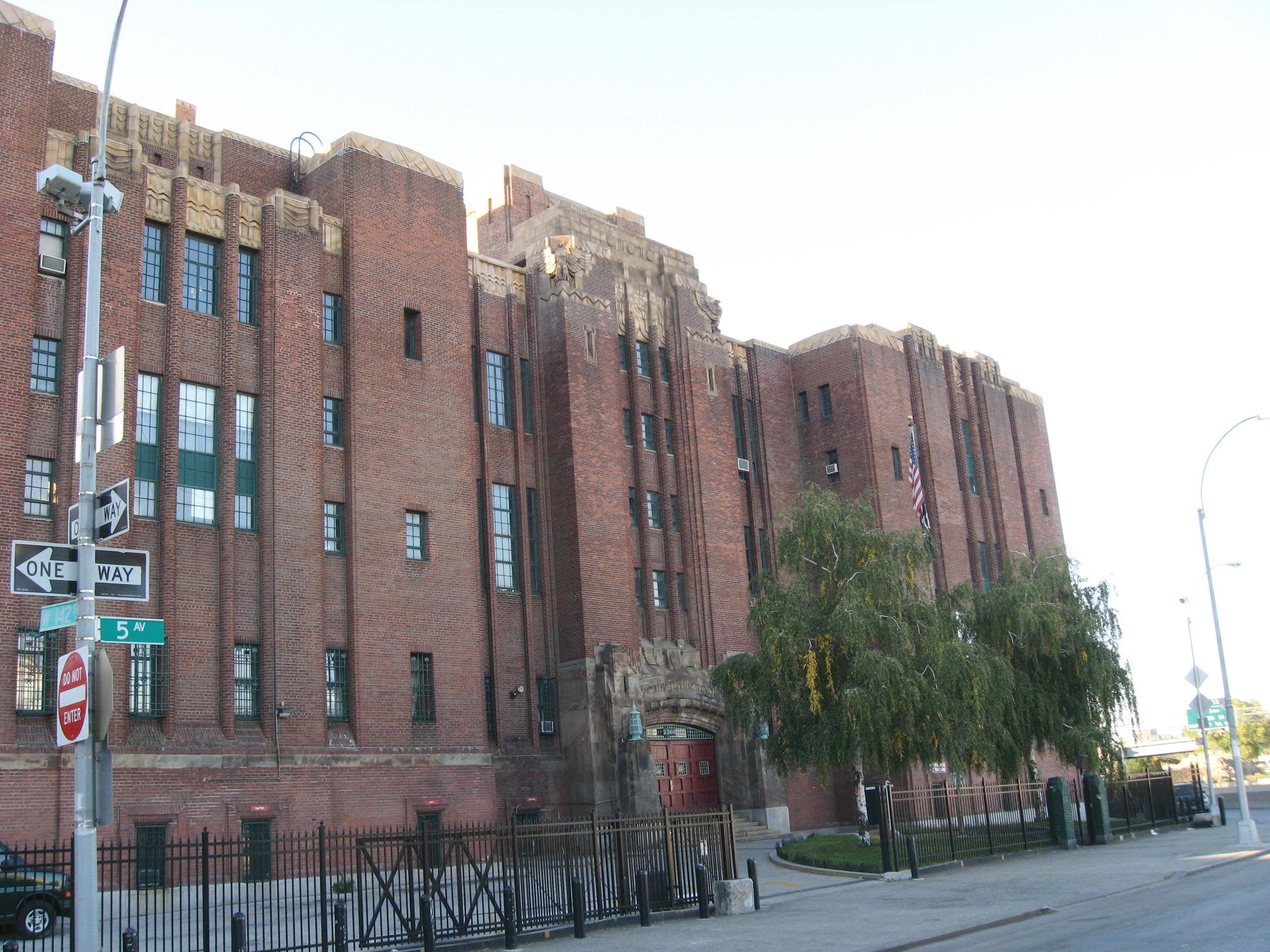 Looking north across 5th Avenue at armory of en:369th Infantry Regiment (United States) on a sunny afternoon